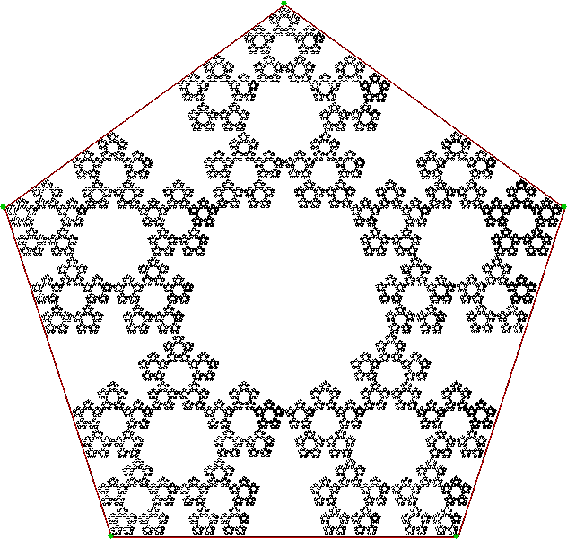 The n-flake fractal created by a point jumping at random 1/phi of the way towards one or another of the five vertices of a pentagon